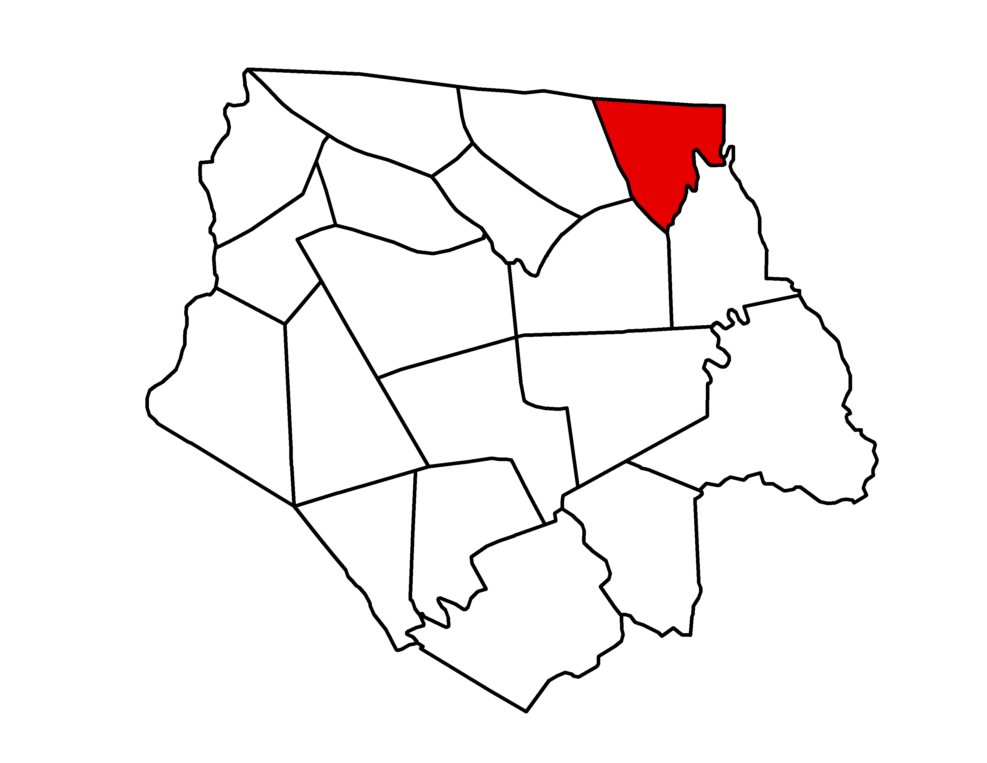 Map highlighting Grassy Creek Township in Ashe County, N.C.